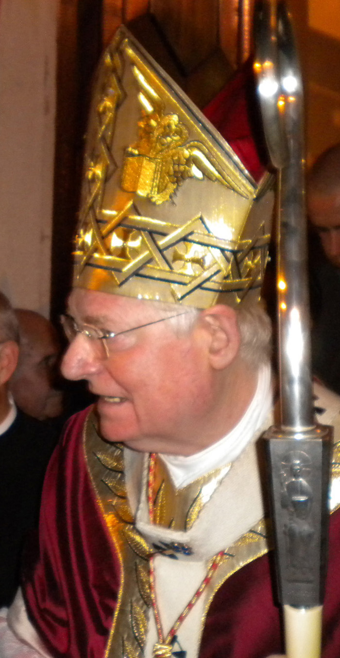 Angelo Cardinal Scola, Archbishop of Milan, Italy